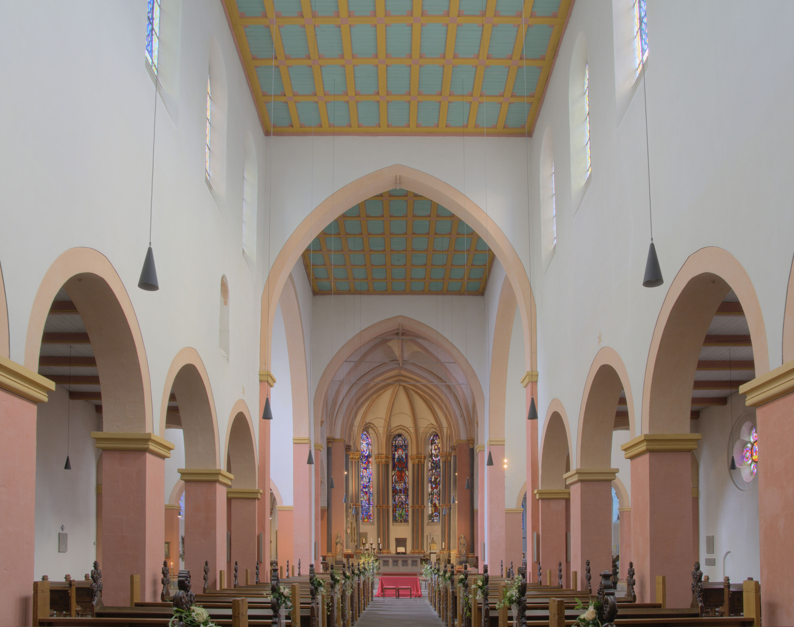 St Suitbertus church in Kaiserswerth/Düsseldorf, Germany. Nave, looking towards the choir.